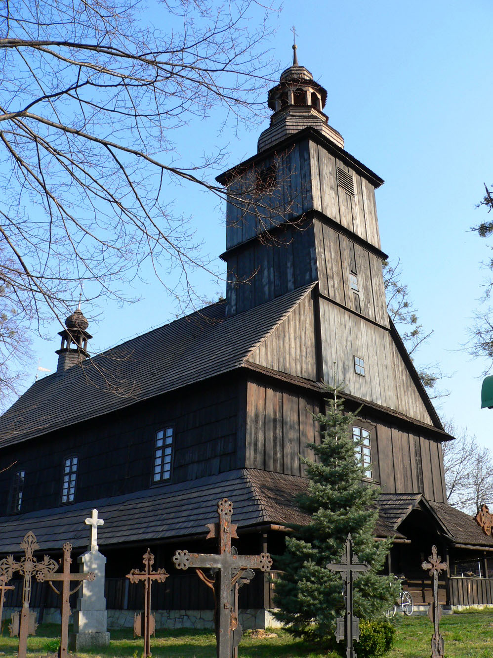 Description: All Saints Church in Sedliště, Czech Republic. Date: 31 March, 2007 Camera: Panasonic DMC-FZ20 Author: Czesil